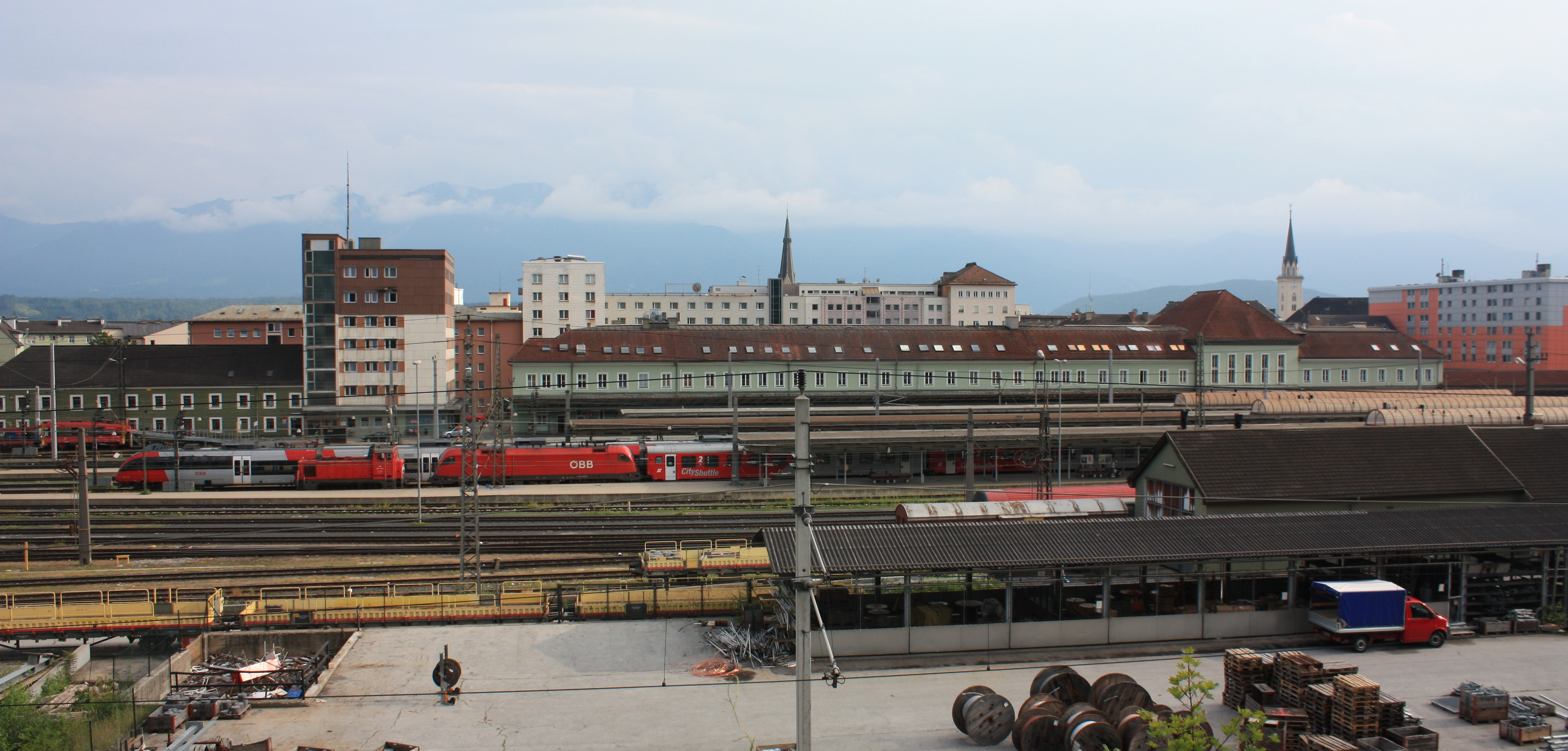 Main station Community:Villach